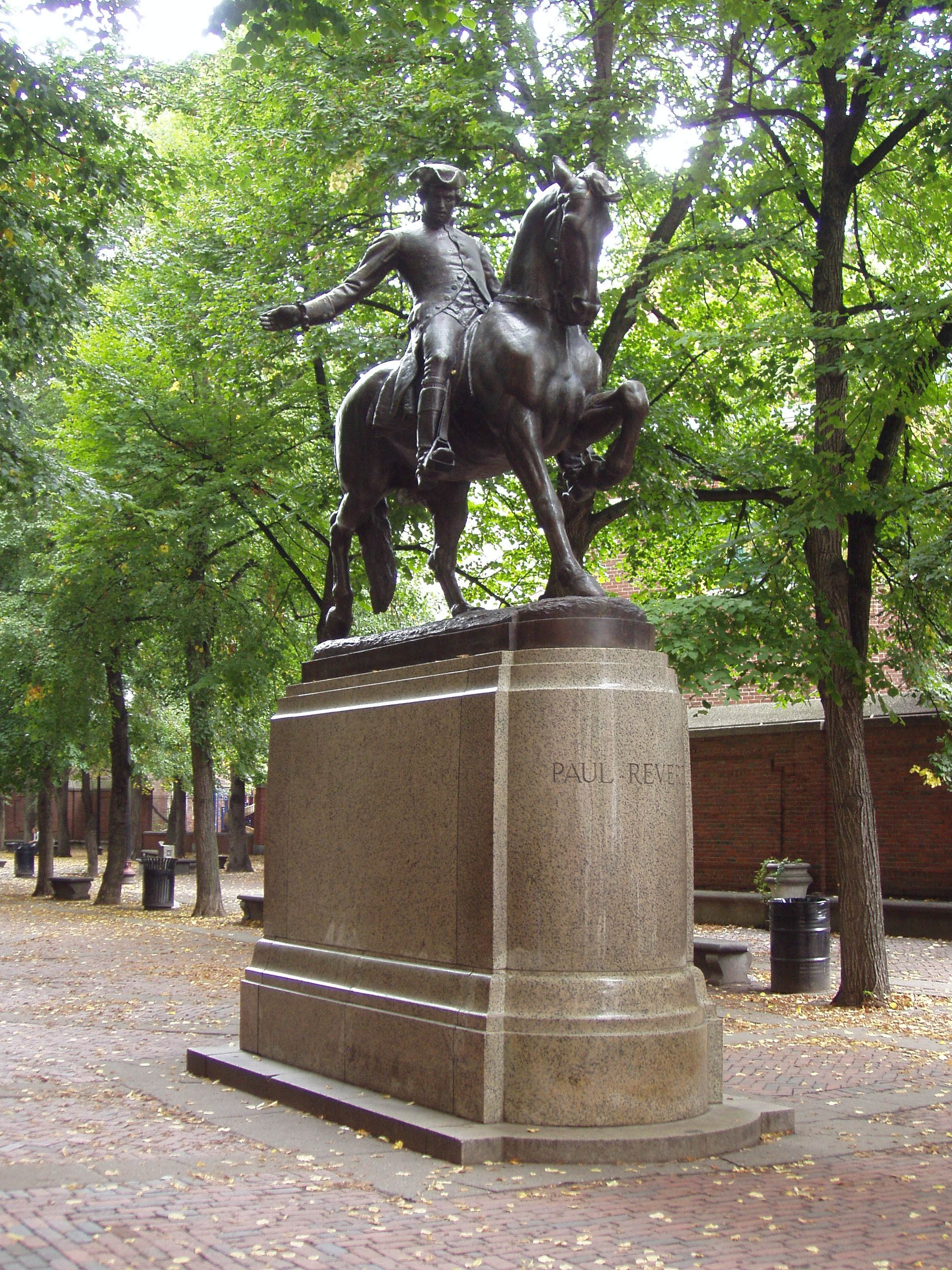 Statue of Paul Revere by Cyrus E. Dallin, in the Paul Revere Mall, North End, Boston, Massachusetts. Photograph taken by Daderot , September 2005.